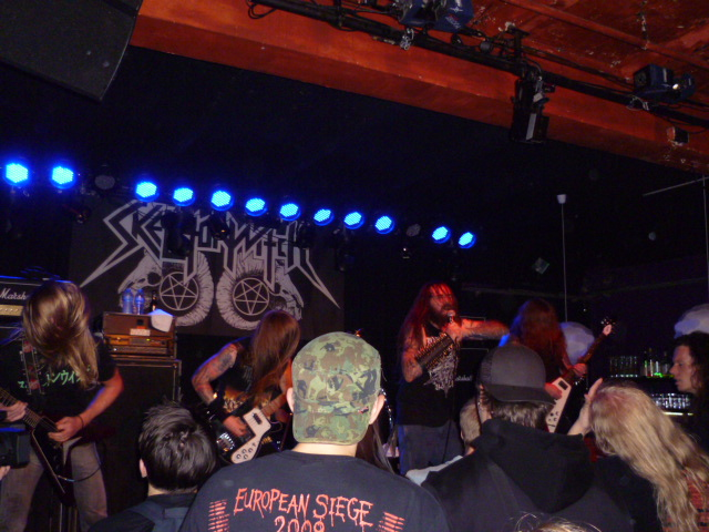 Skeletonwitch live at the Kleine Klub (Saarbrücken)